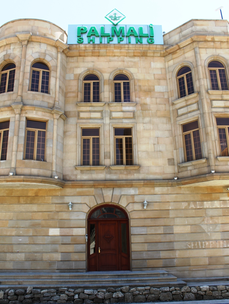 Palmali Shipping office in Baku (the company itself is based in Istanbul).